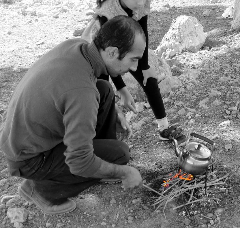 Tea pot on firewood in Palestinian territories